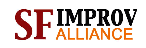 The San Francisco Improv Alliance.